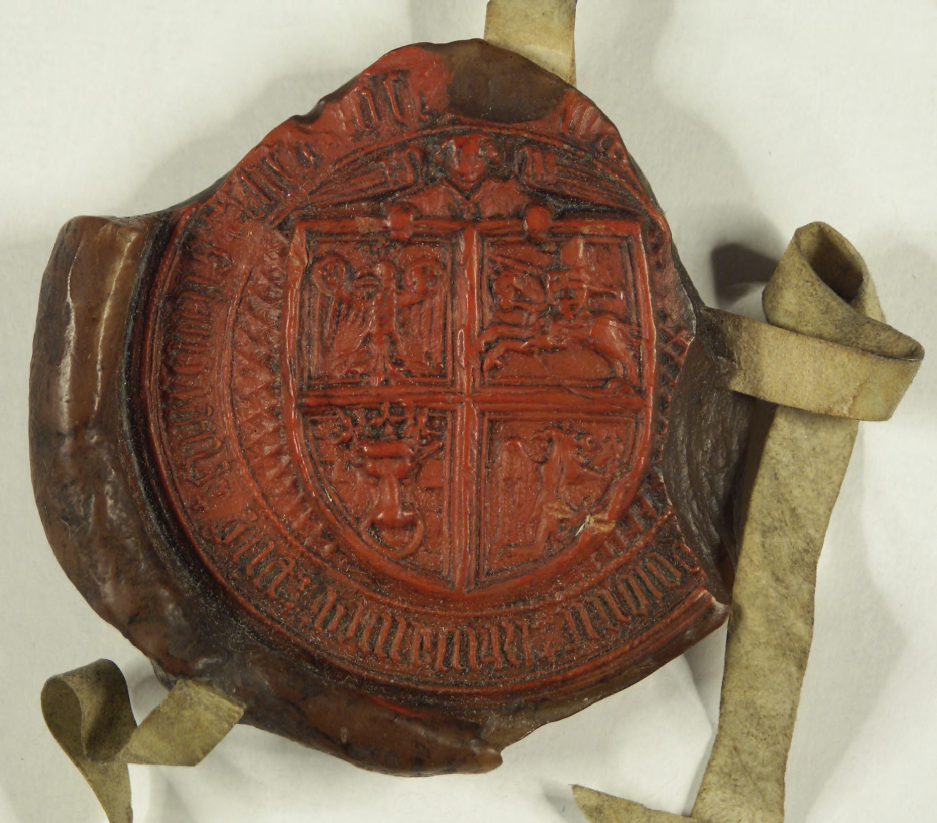 Author AnonymousUnknown authorTitle